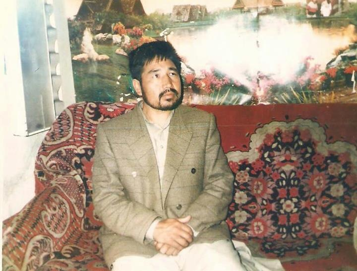 Abdul Talib Zaki